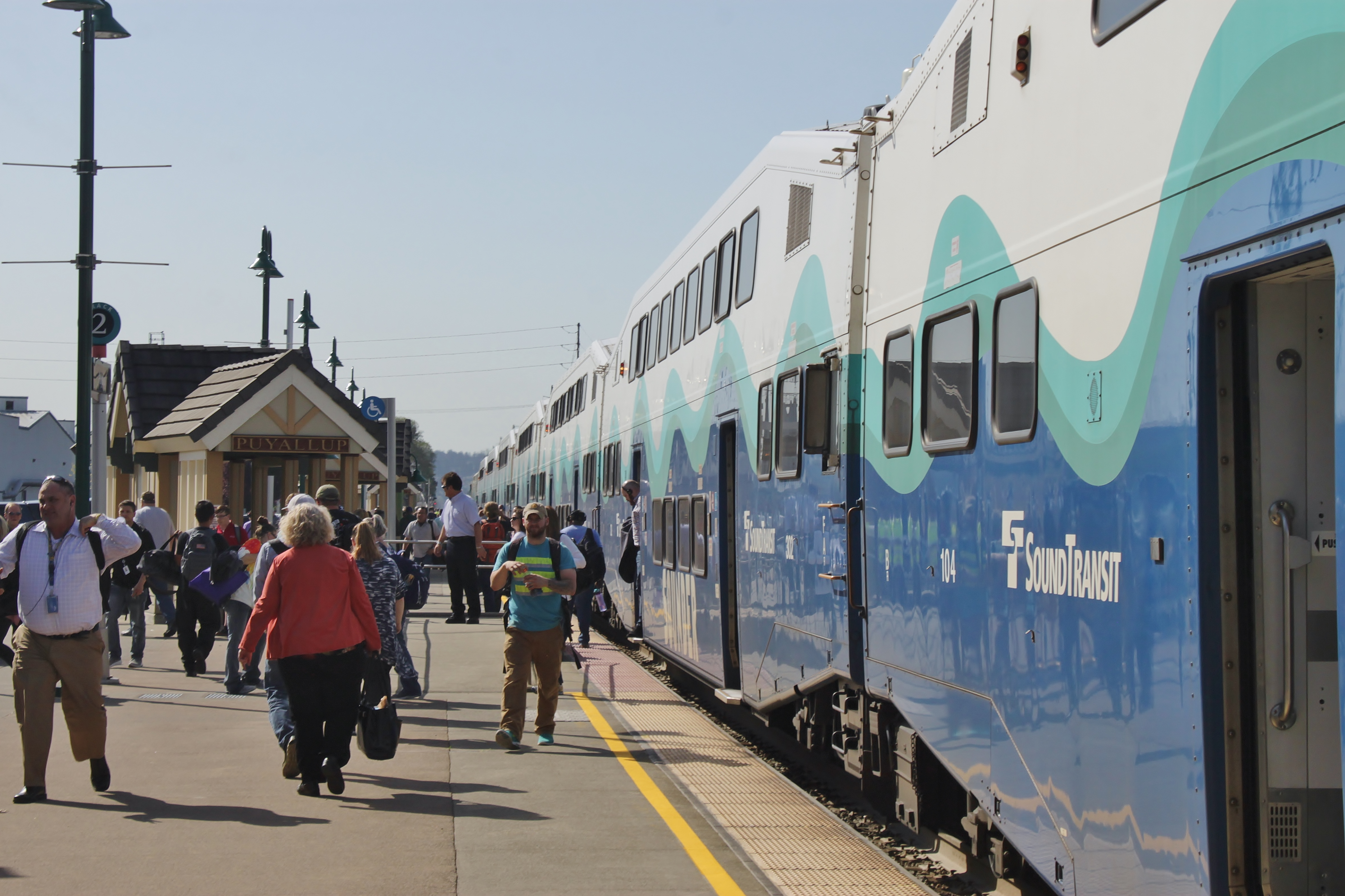 Passengers disembark from a southbound Sounder commuter train at at Puyallup station in Puyallup, Washington, US.